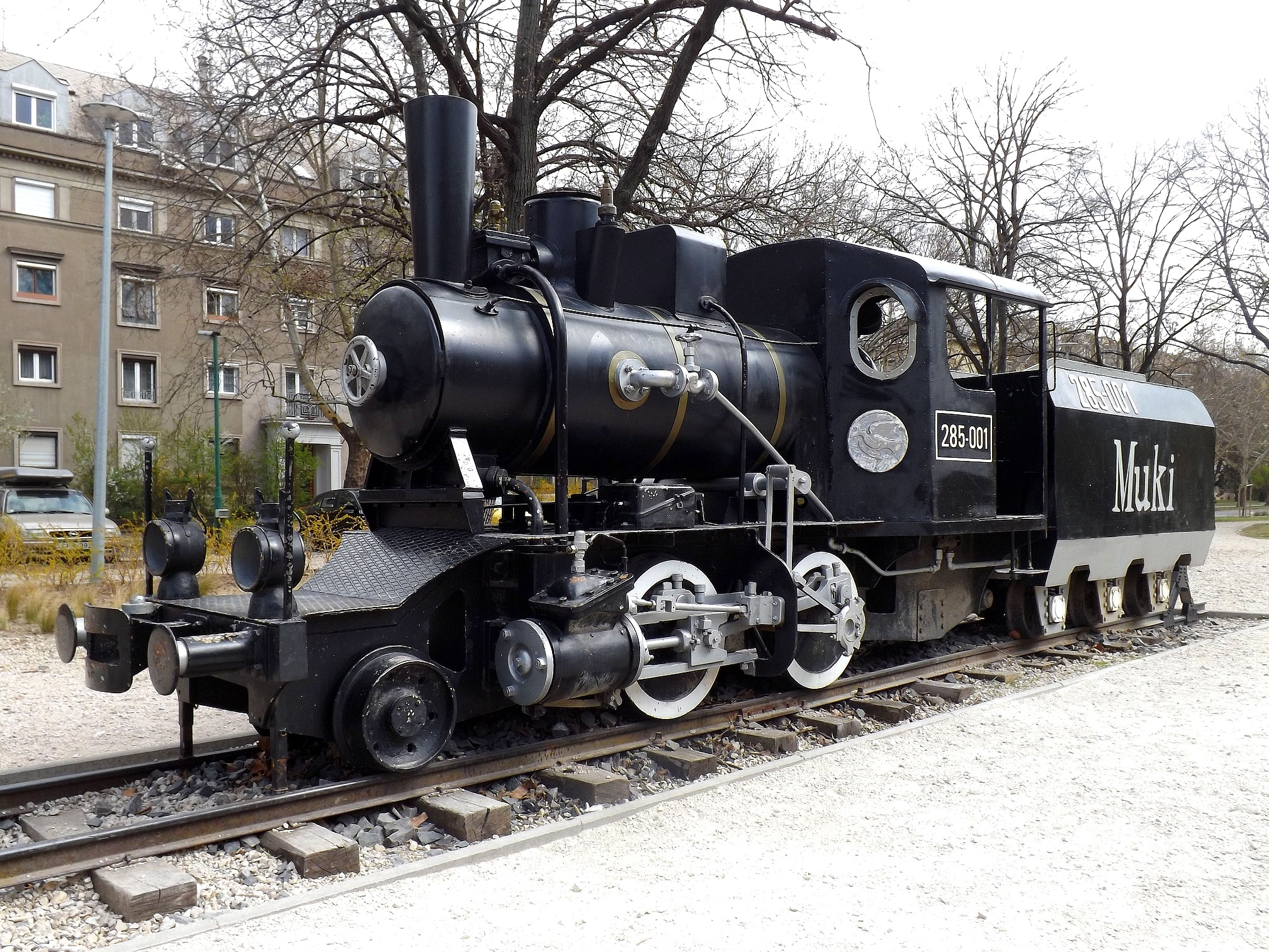 Built in 1894 by the Orenstein & Koppel machine factory in Berlin, exhibited at Vasmű Street in Dunaújváros.